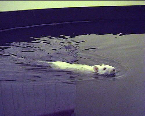 Rat swimming in a Morris Water Maze - a behavioural neuroscience experiment.